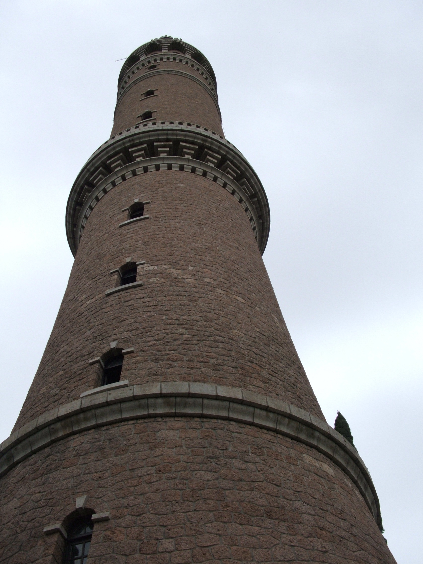 Observation tower in Anchorena Park, Colonia, Uruguay